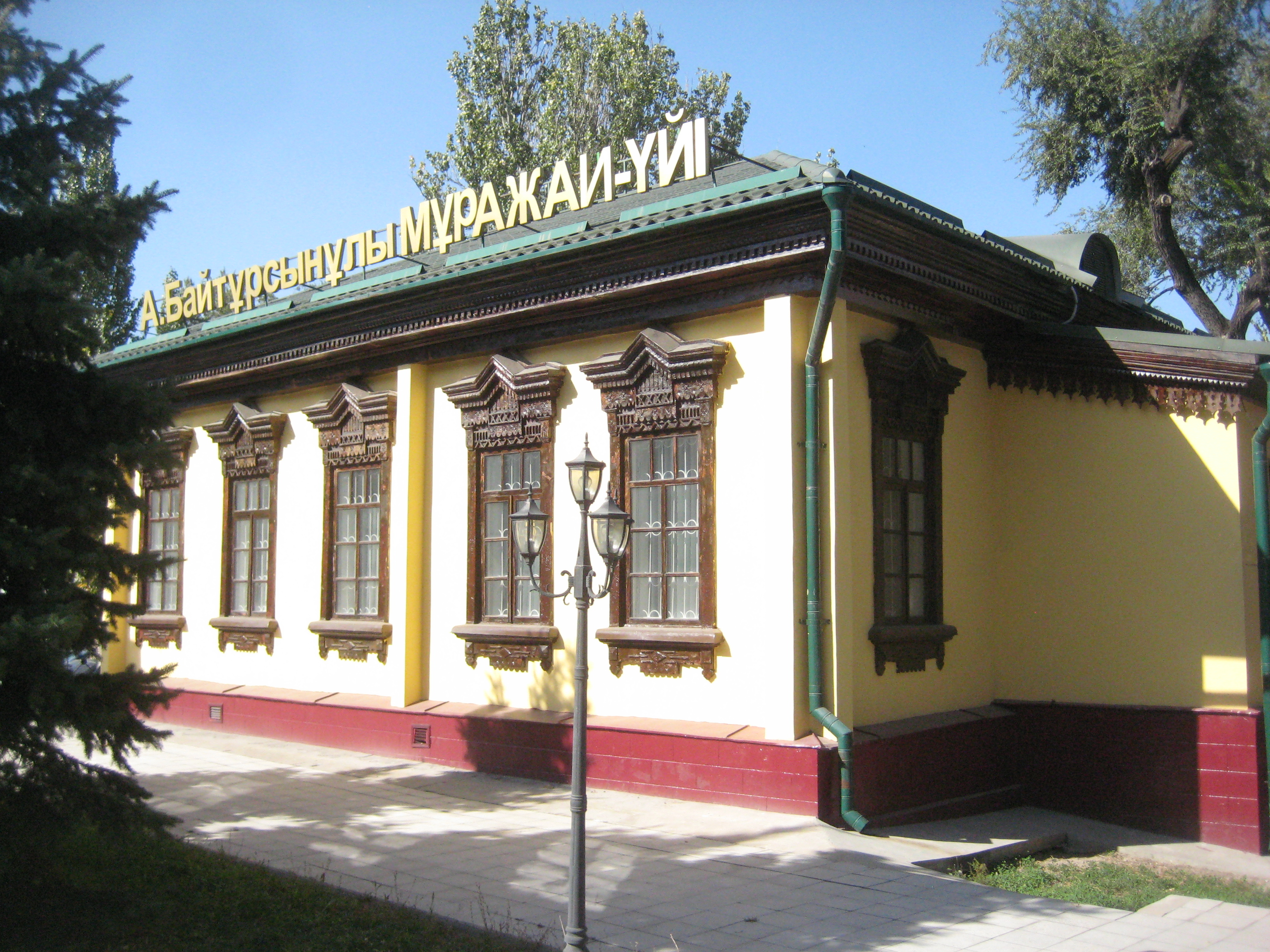 Akhmet Baytursynov's memory museum in Almaty